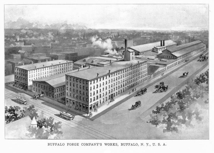 Image taken from the book. Shows the Buffalo Forge Company works ca. 1899. Converted to greyscale by the uploader.